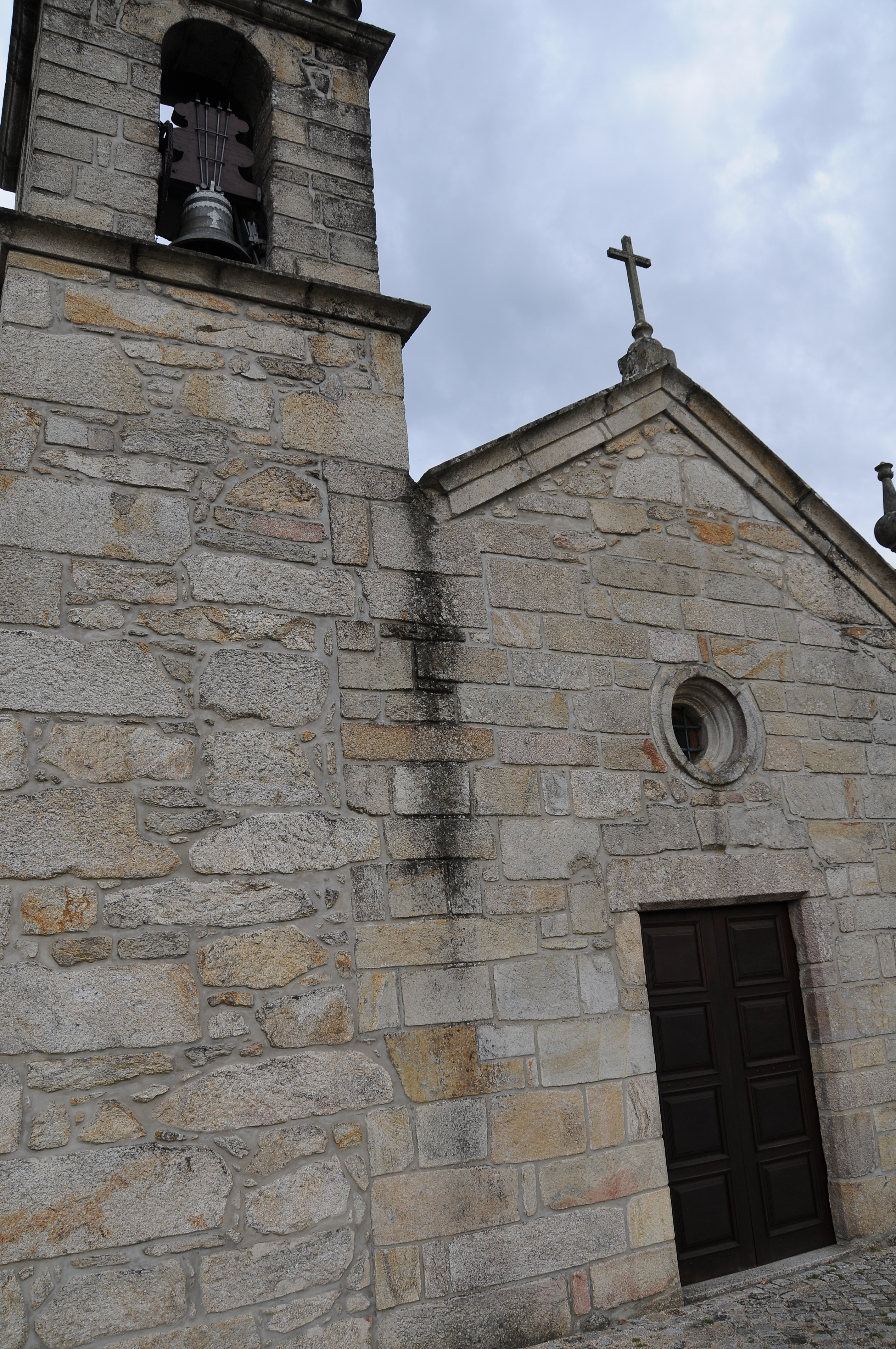 Segude Church, in Segude, Monção Portugal